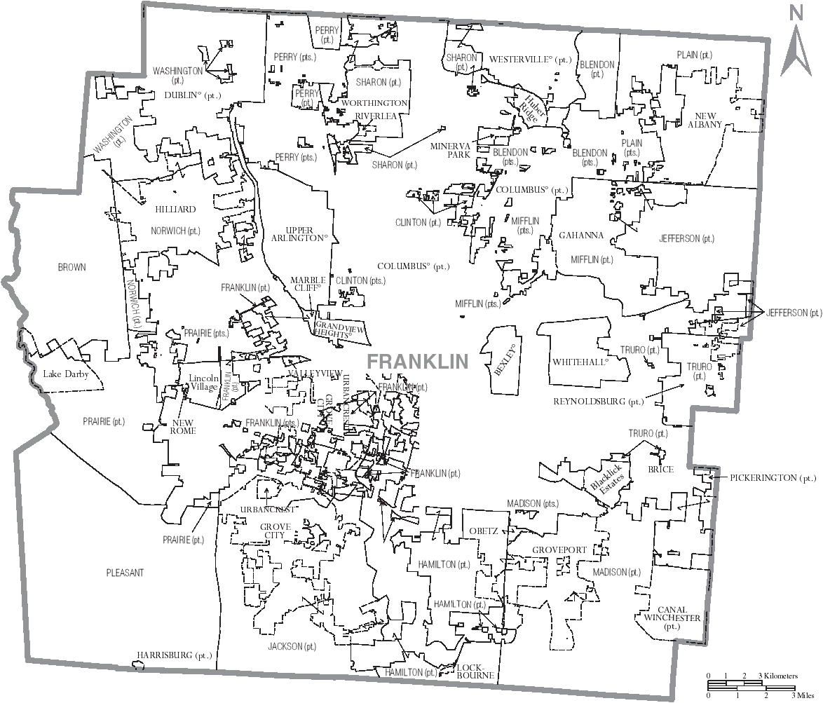 Map of Franklin County, Ohio, United States with township and municipal boundaries